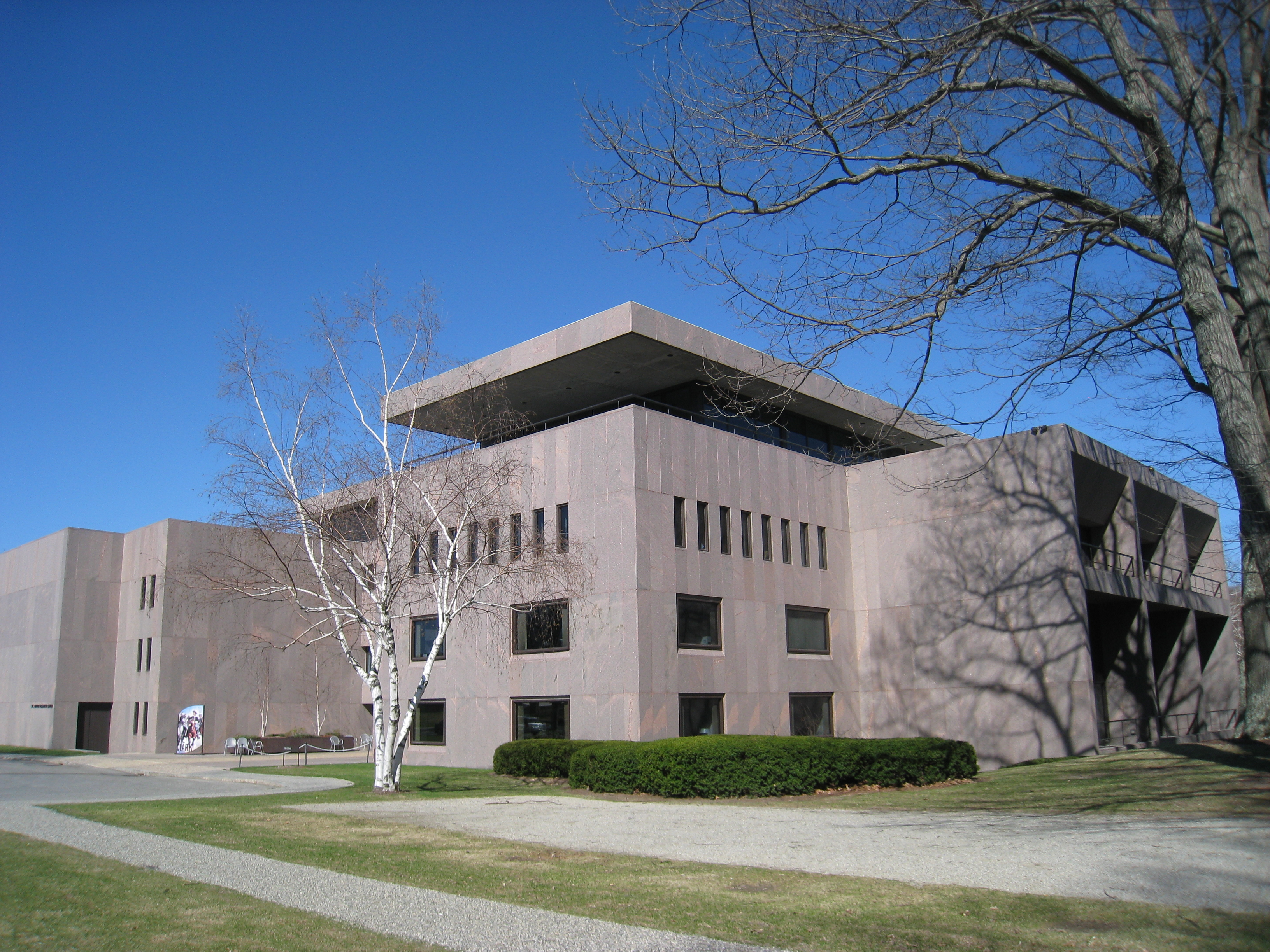 Manton Research Center, Sterling and Francine Clark Art Institute, Williamstown, MA - main entrance. This building designed by Pietro Belluschi and The Architects Collaborative, 1973.